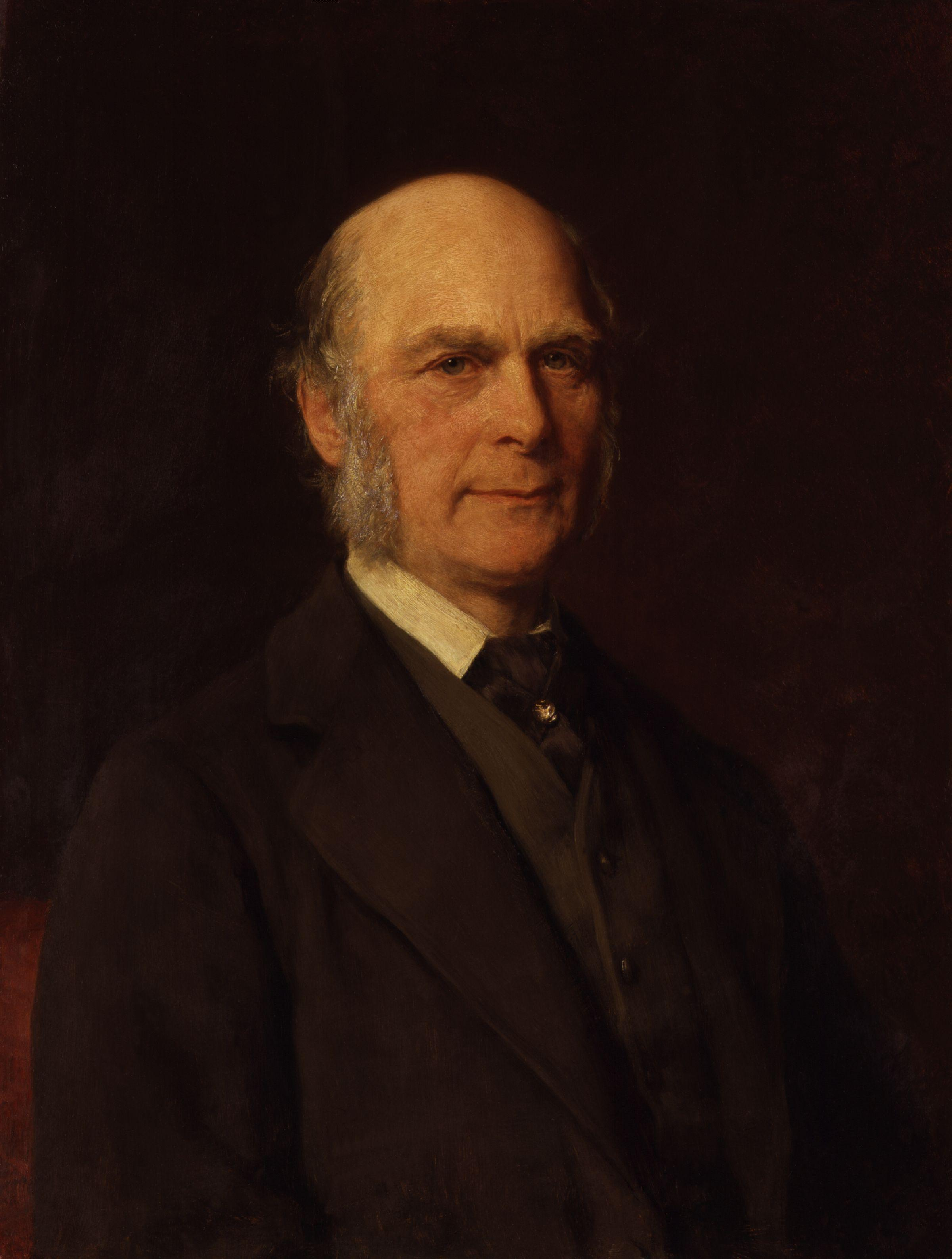 Sir Francis Galton, by Gustav Graef (died 1895). All images in this batch have been confirmed as author died before 1939 according to the official death date listed by the NPG.